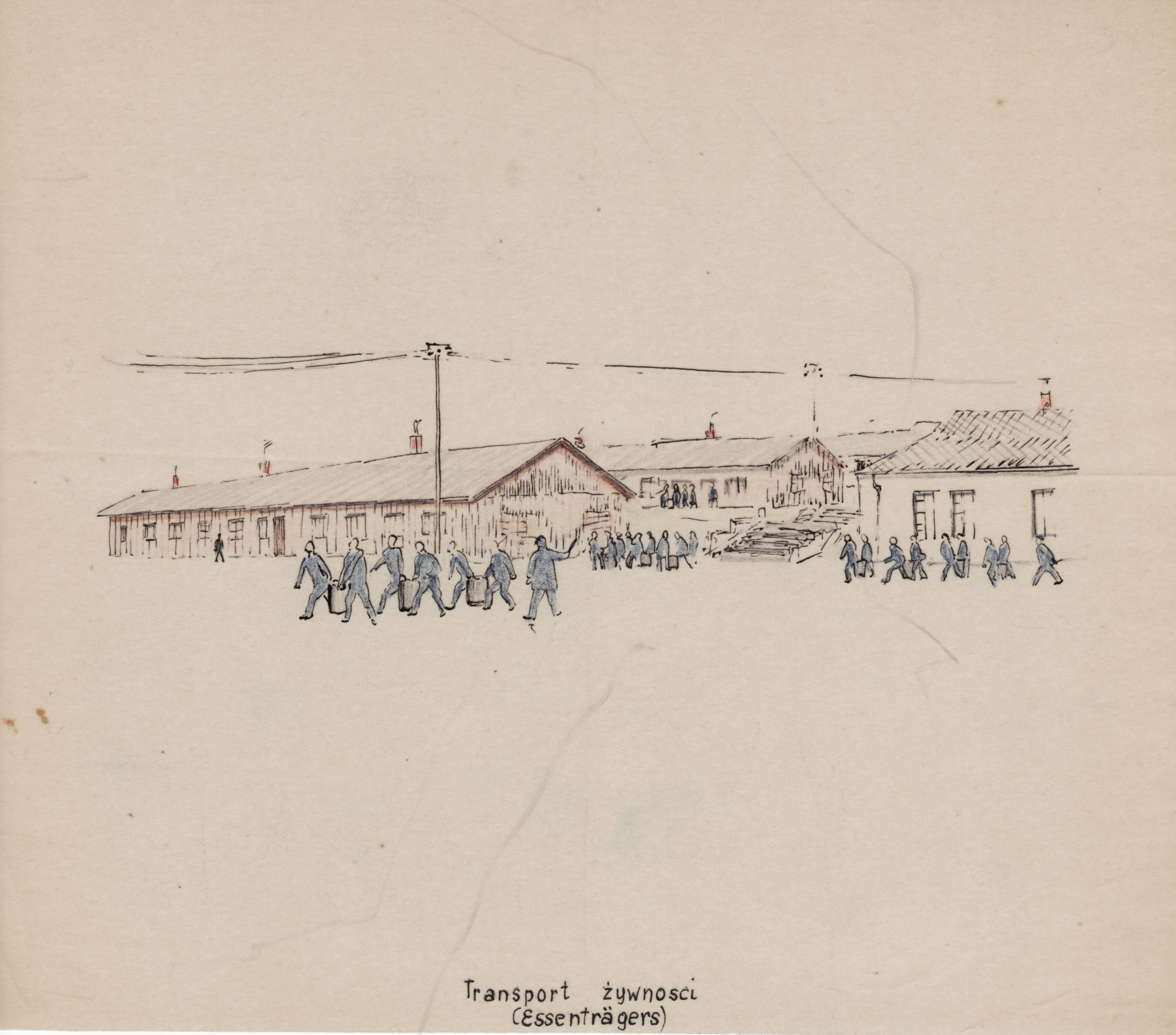 "Food transsport (Essenträgers)" Drawing by Stefan Kryszak survivor of Flossenbürg concentration camp. Drawing done in ink on tracing paper.